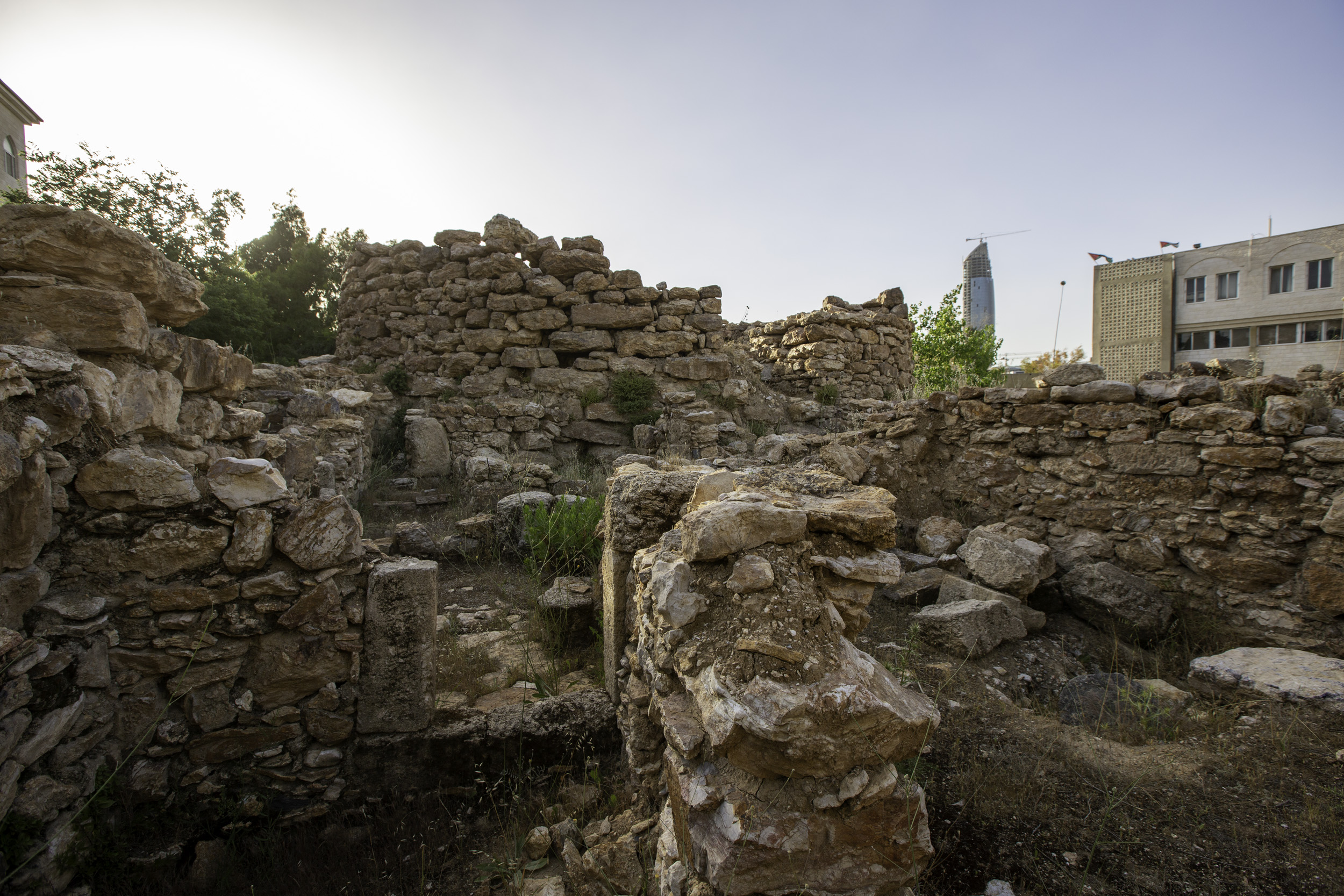 Rujm Al-Malfouf Details of Ruins